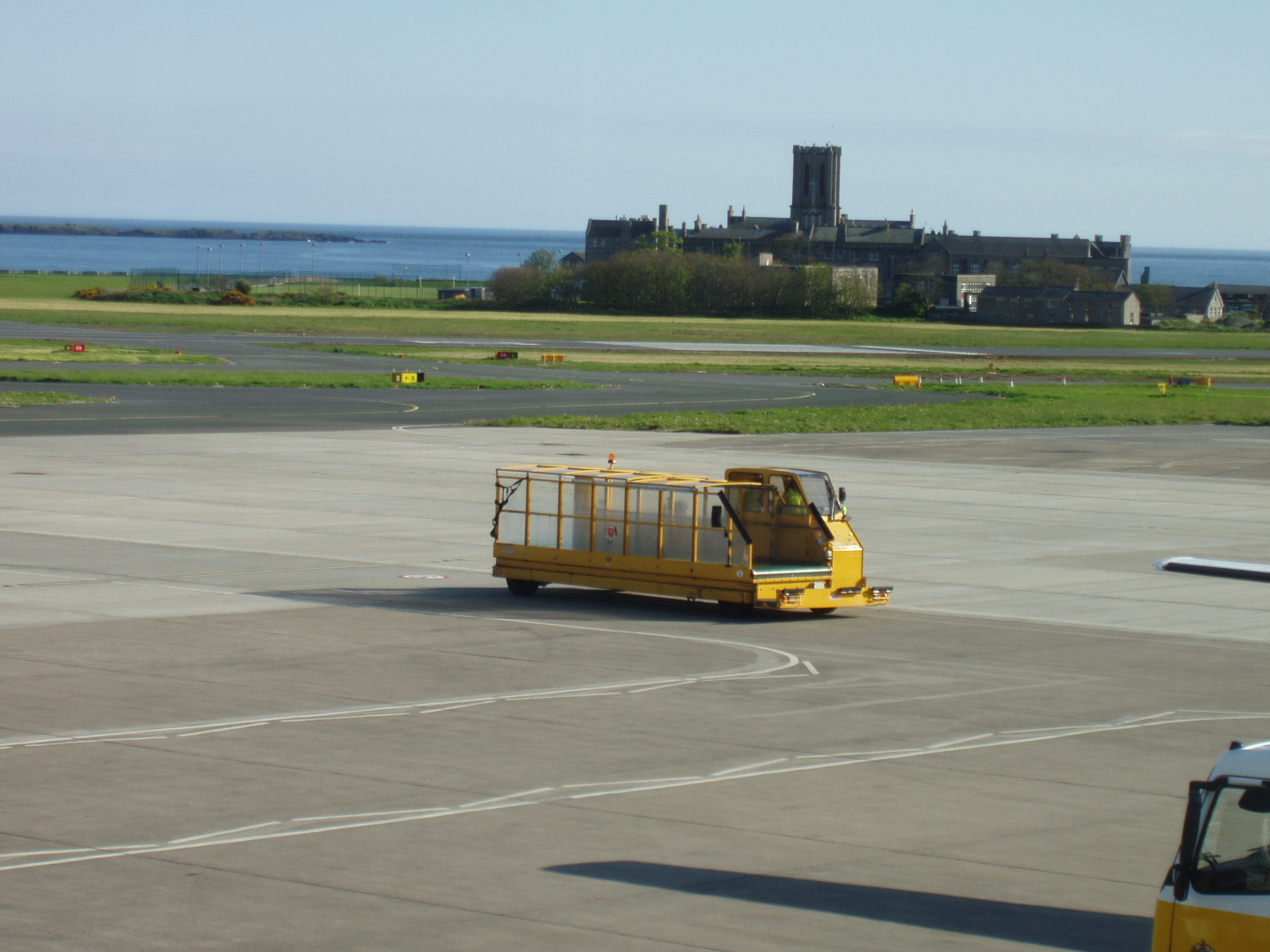 A baggage loading and transport vehicle drives across the ramp at Ronaldsway Airport (IOM) on the Isle of Man. In the background is King William's College on the shore of Castletown Bay.